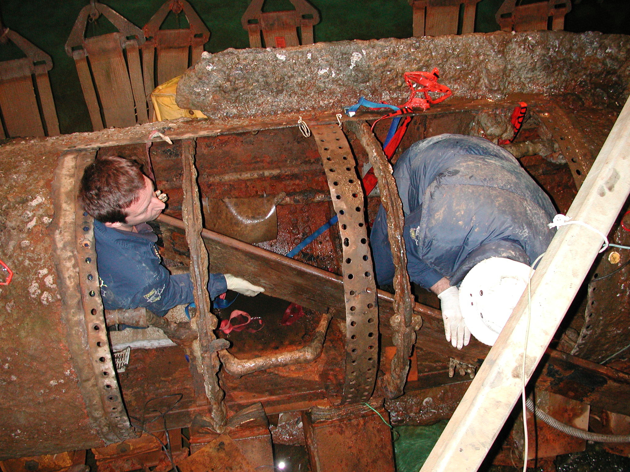 Charleston, S.C. (Jan. 28, 2005) – Civil War Confederate submarine Hunley conservators Philippe de Vivies, left, and Paul Mardikian remove the first section of the crew’s bench at the Warren Lash Conservation Lab in the former Charleston Navy Shipyard, S.C. Archaeologists and conservators are hopeful that once the bench is removed, they will discover new Hunley artifacts. Photo courtesy of Naval Historical Center (RELEASED)